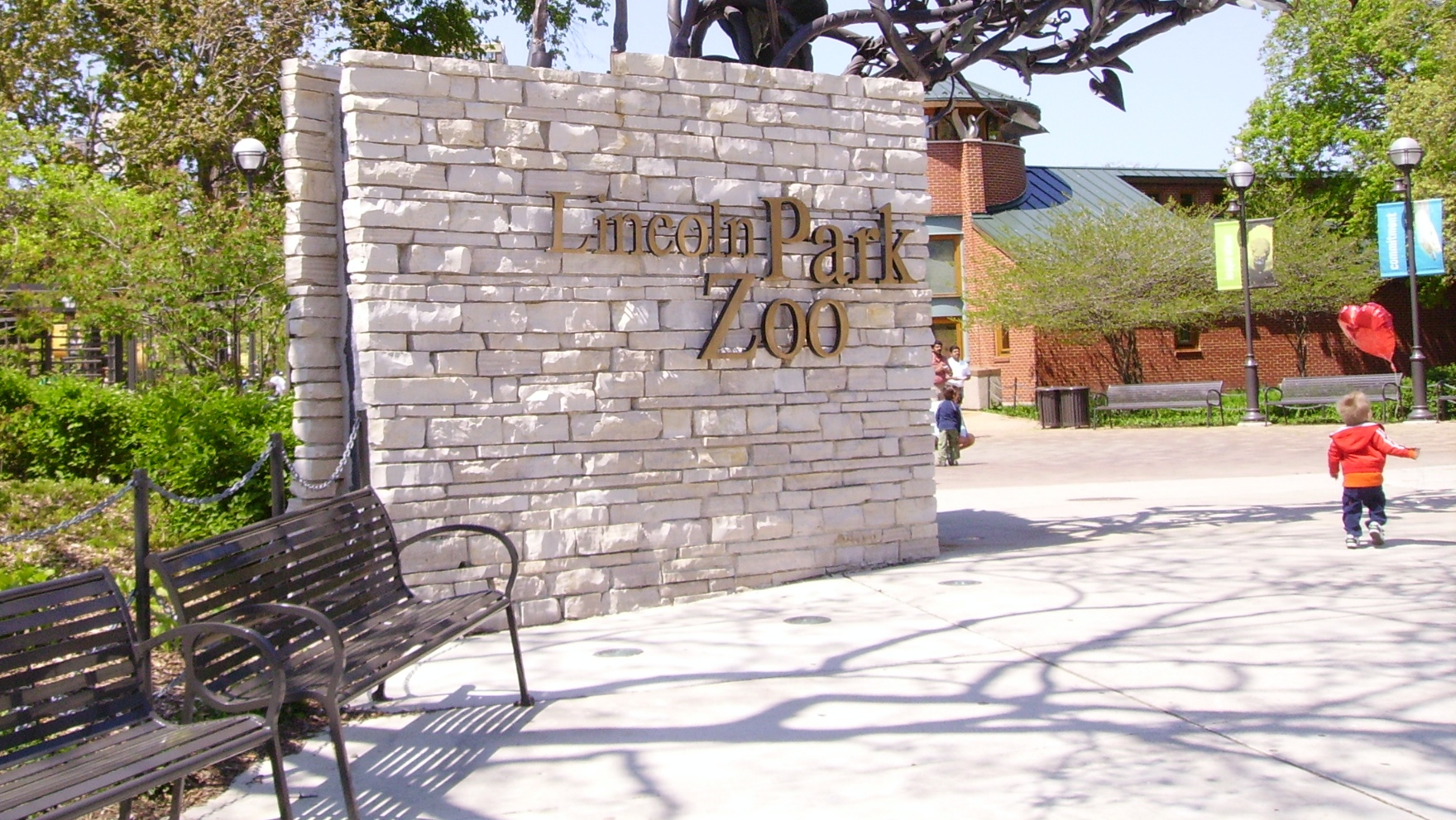 Lincoln Park Zoo, Chicago, USA entrance.